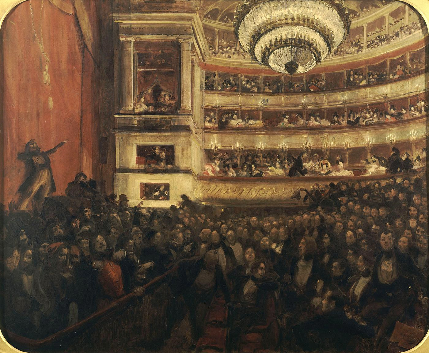 Commissioned by Paul Meurice for the opening of the museum in 1903